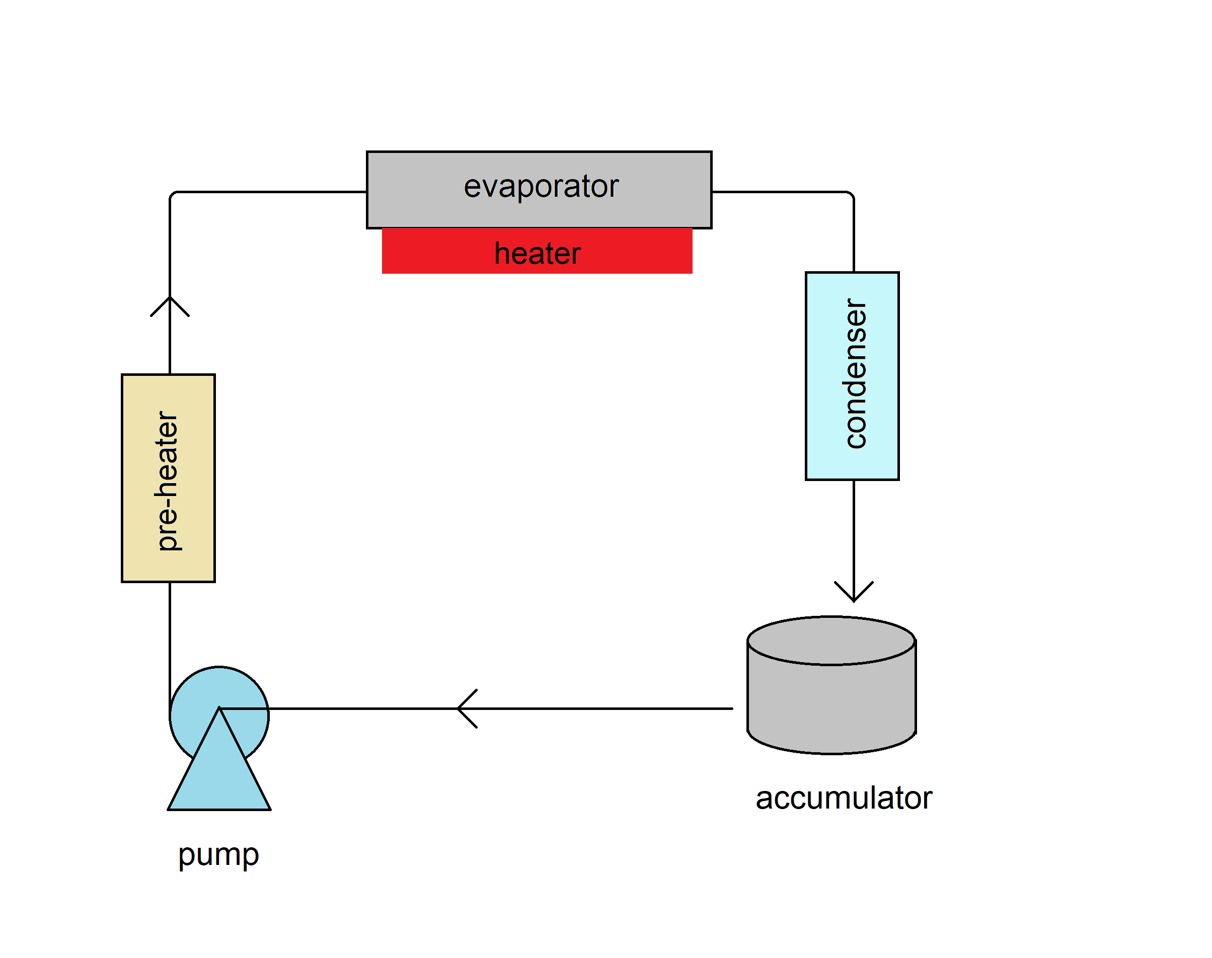 Here is a schematic with the key components in a two-phase cooling loop. The main elements are the evaporator, the condenser, the accumulator and the pump; in this system, a pre-heater is then used before the evaporator, to adjust the temperature close to the saturation point.